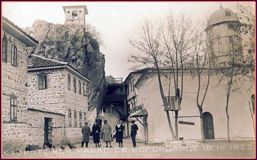 Kališta Monastery, Macedonia